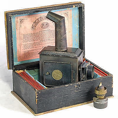 MRF. One of exhibits of the museum - Magic Lantern of 1800.